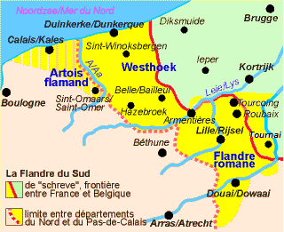 Romance Flanders